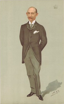 Caricature of The Earl of Yarborough JP. Caption read "Brocklesby".